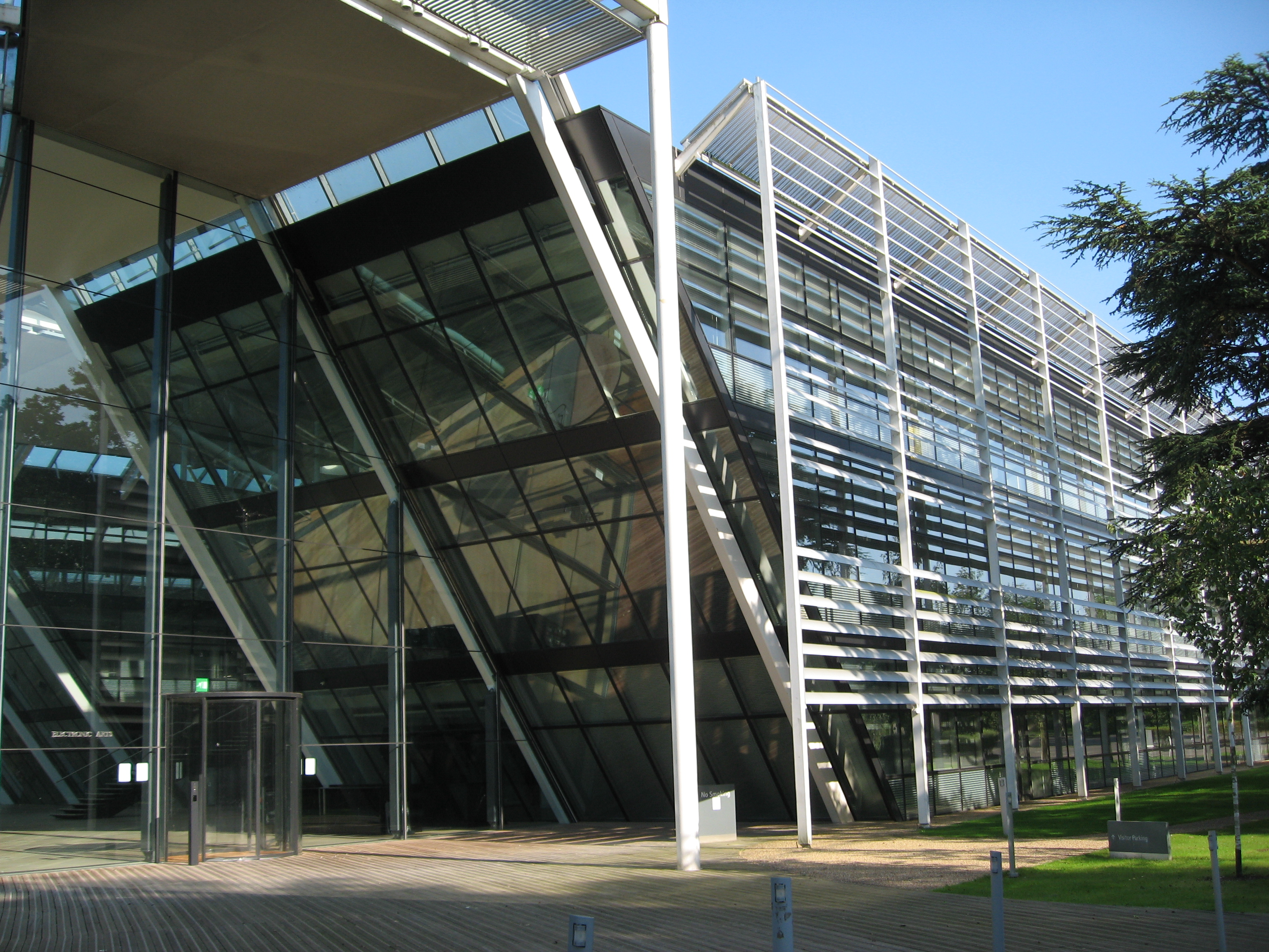 The Electronic Arts European Headquarters in Chertsey, Surrey. The building was designed by Norman Foster